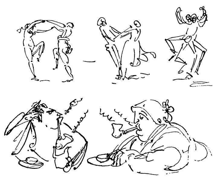 Let us dance and smoke